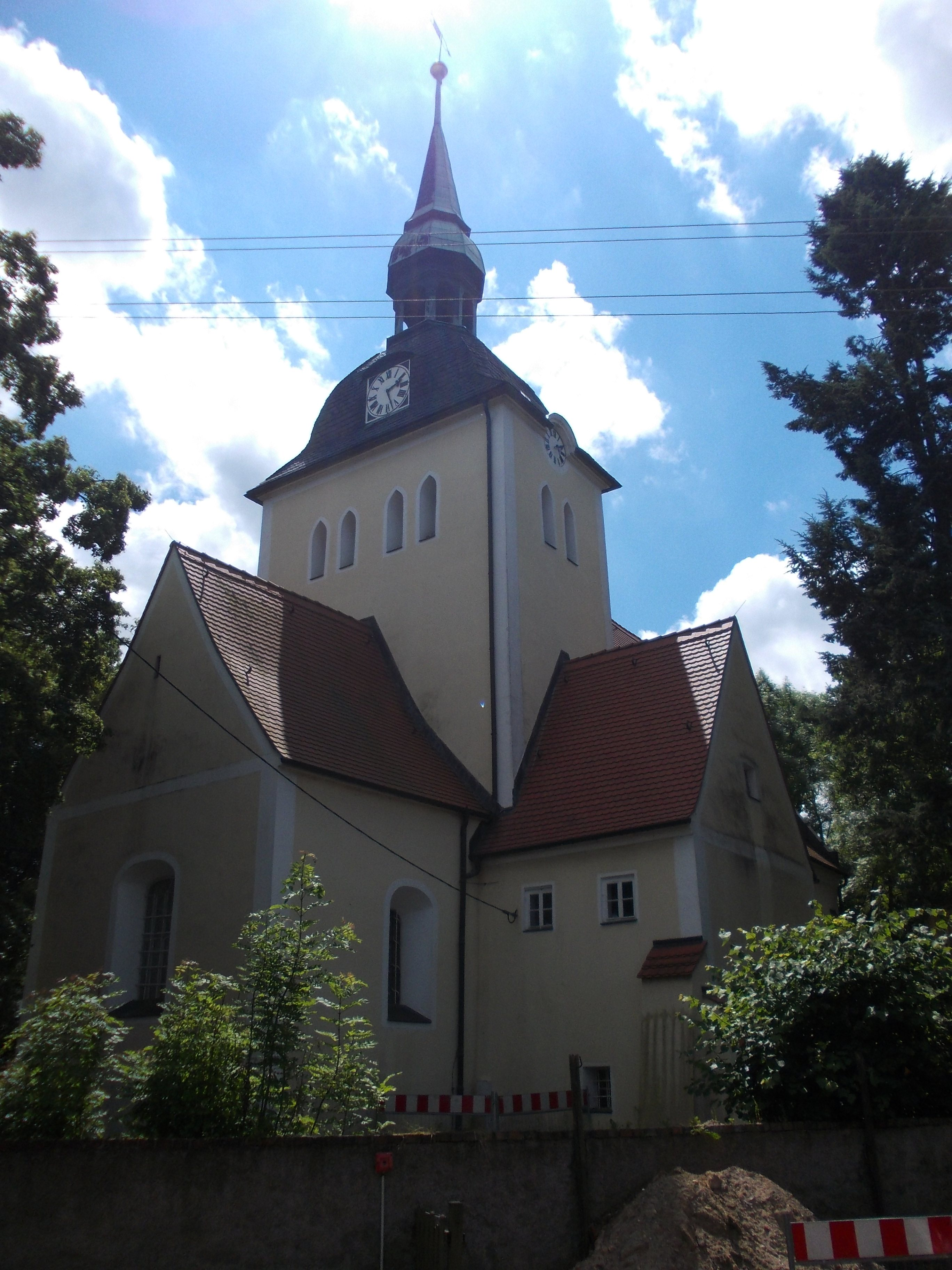 Burkartshain church (Wurzen, Leipzig district, Saxony)